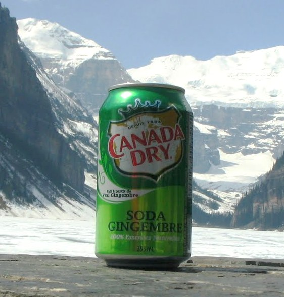 Lake Lousie, Alberta, Canada